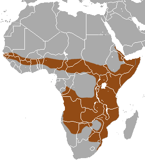 Banded Mongoose (Mungos mungo) range